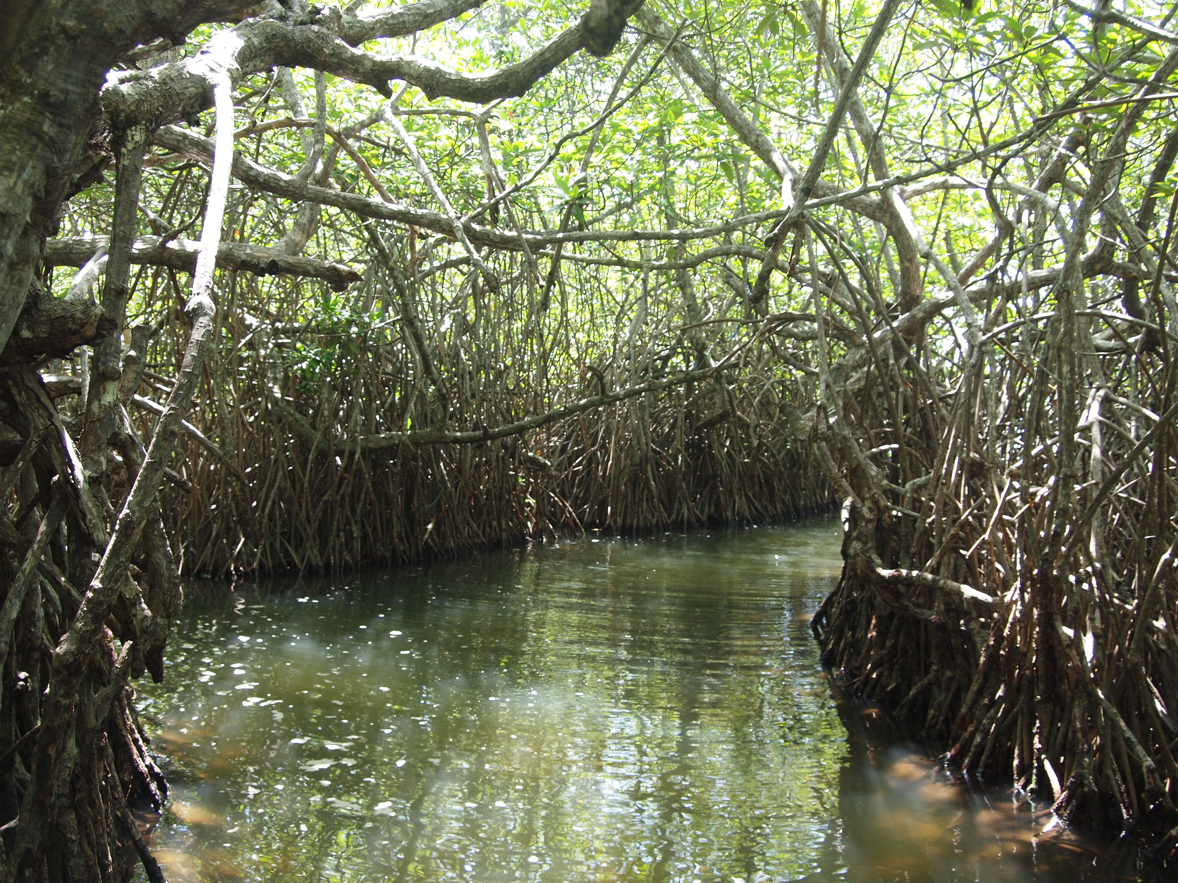 Mangrove cave